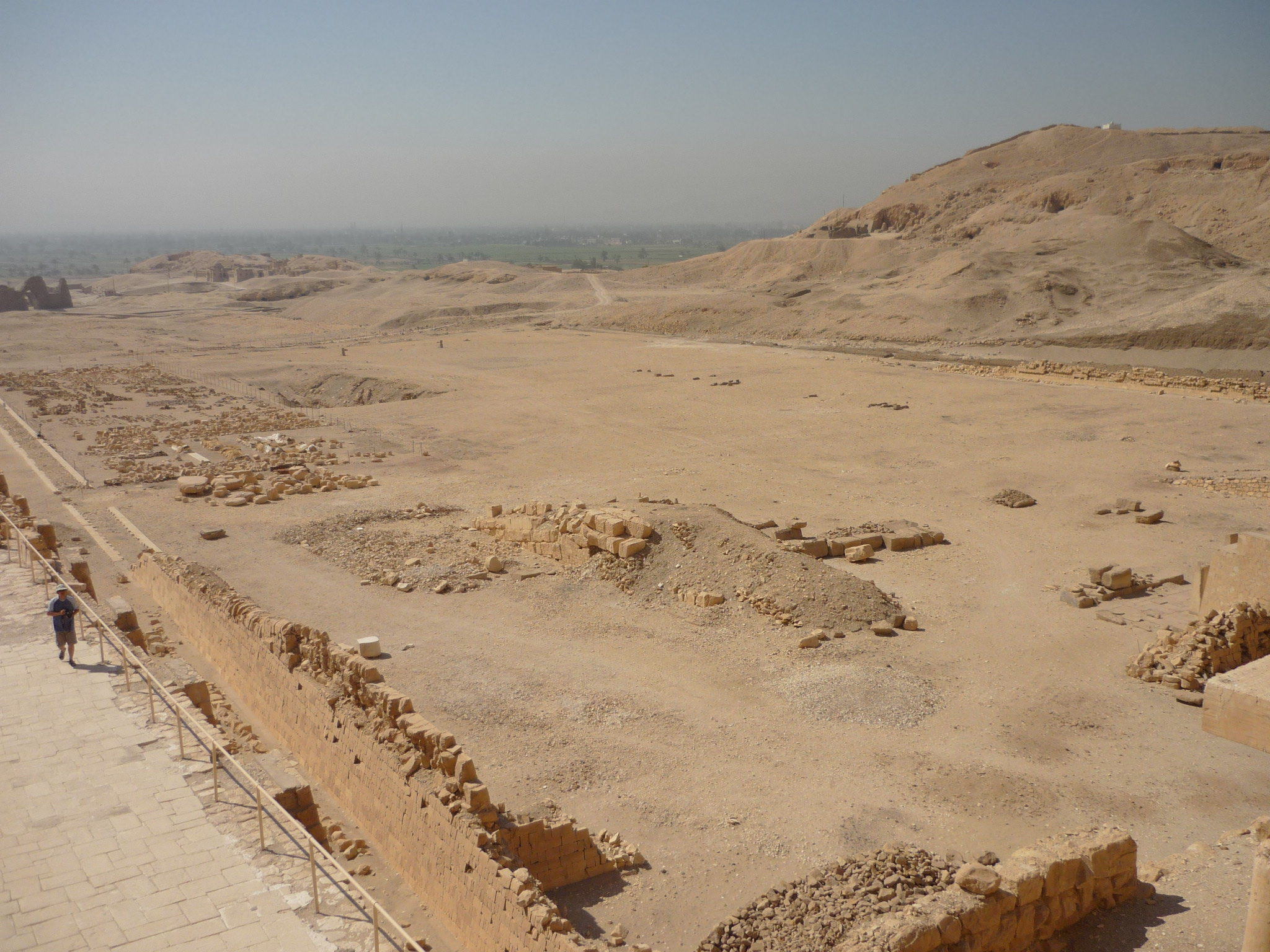 Deir el-Bahari, Theban Necropolis, Egypt